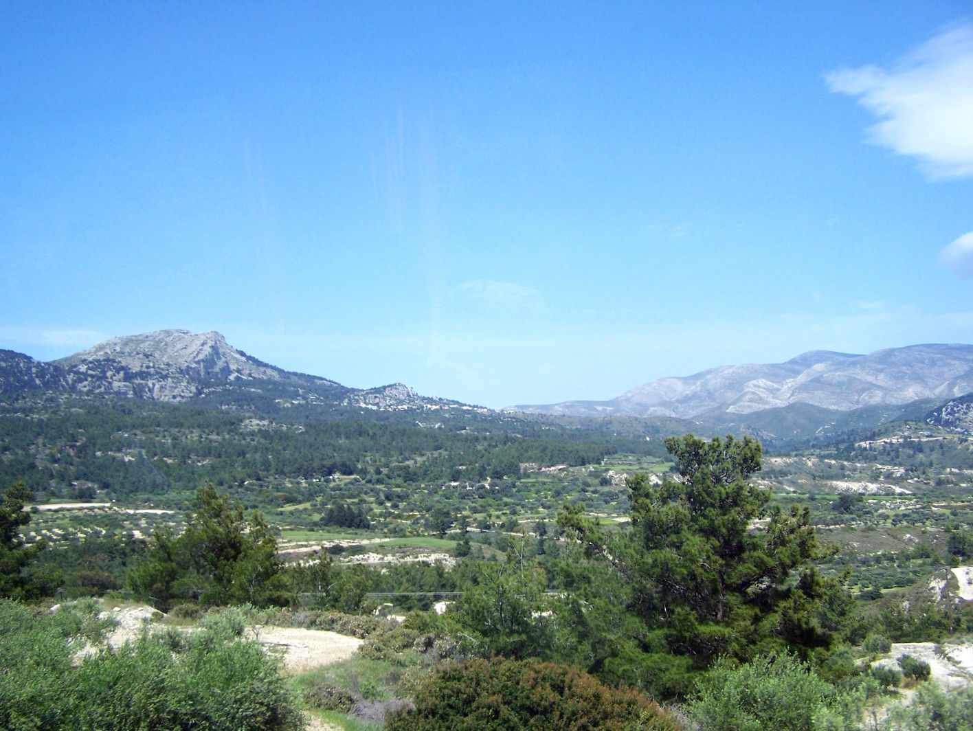 Landscape in the south of Rhodes